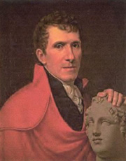 couple-painting with "Portrait of Bertel Thorvaldsen"